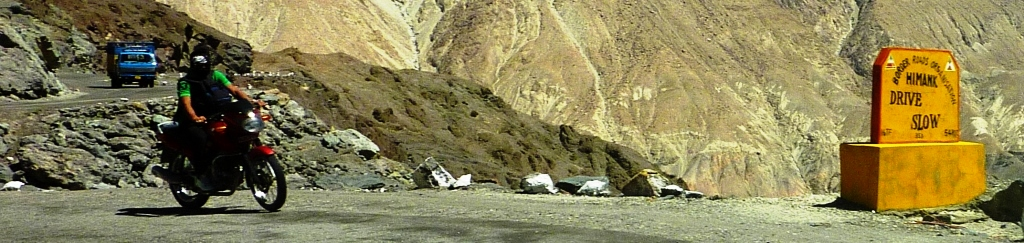 I took this photo on a trip to Nubra Valley in 2010.